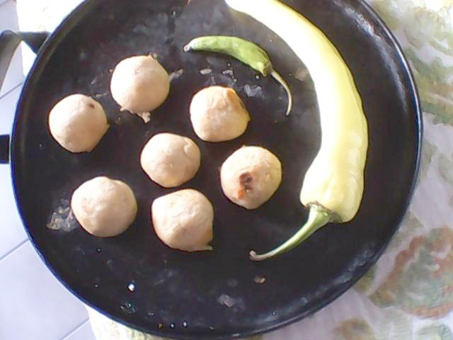 Piedras de masa de maíz con queso